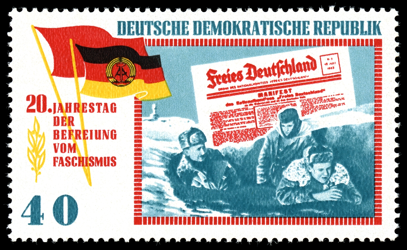 Ausgabepreis: Pfennig First Day of Issue / Erstausgabetag: Auflage: Entwurf: Druckverfahren: Michel-Katalog-Nr: Ländercode-MiNr: Licensing This file is most likely NOT in the public domain. It has been marked for review, and will be deleted in due course if the review does not find it to be in the public domain. This file was previously considered to be in the public domain as a German stamp; it is possible that it is in the public domain for other reasons, in which case a new rationale will be applied as part of the review process. See below for the previous rationale. Previous public domain rationale, no longer applicable This stamp is in the public domain in Germany because it was released by the postal administration of the German Democratic Republic or the Soviet occupation zone (Deutschen Post der DDR) whose legal successor is the Federal Republic of Germany. Thus it is an official work according to German copyright law (§ 5 Abs. 1 UrhG).